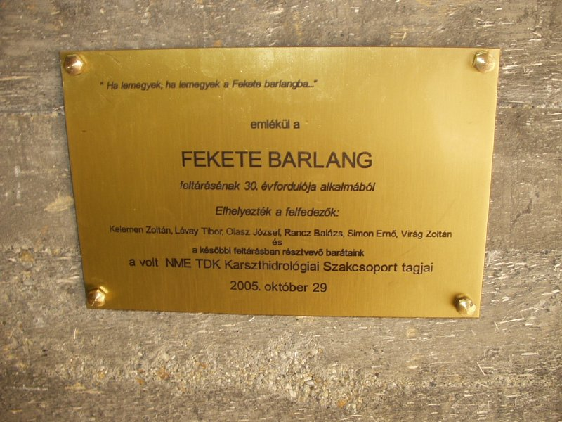 Commemorative plaque in the Fekete Cave, Bükk Mountains, Miskolc